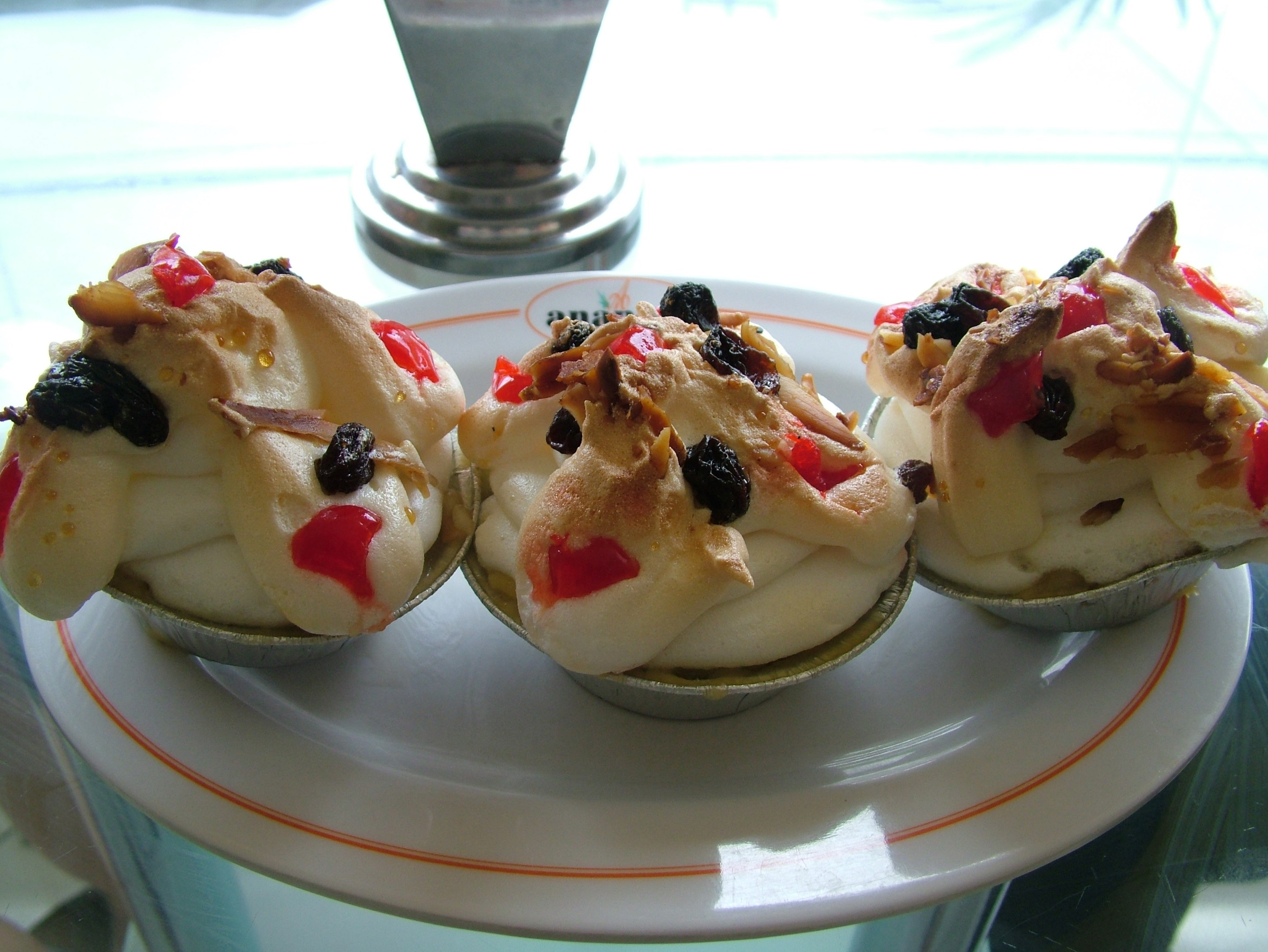 Klappertaart! Coconut custard and meringue